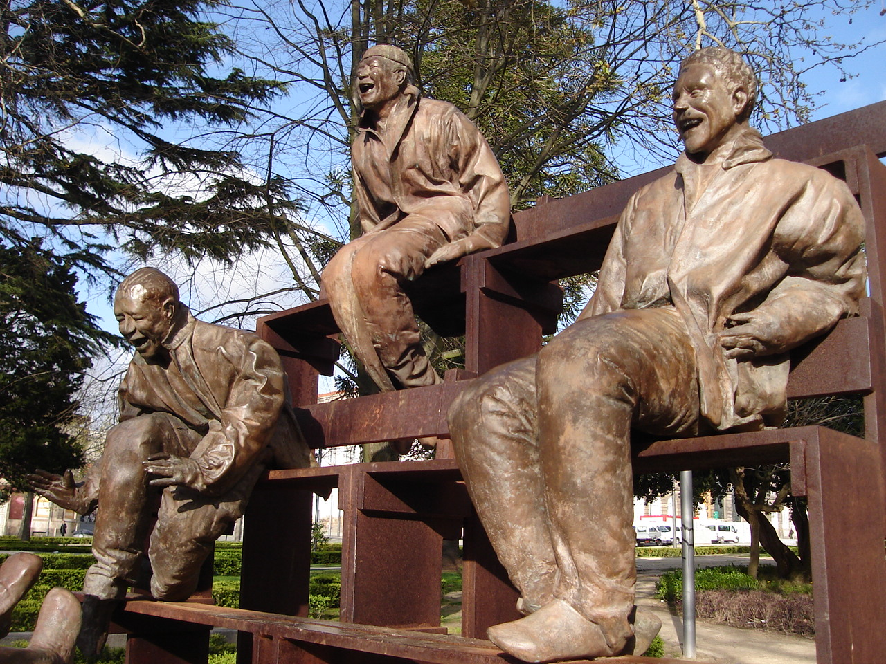 Fragment of Juan Muñoz' series of sculptures "Thirteen Laughing at Each Other" (2001), Jardim da Cordoaria, Porto, Portugal